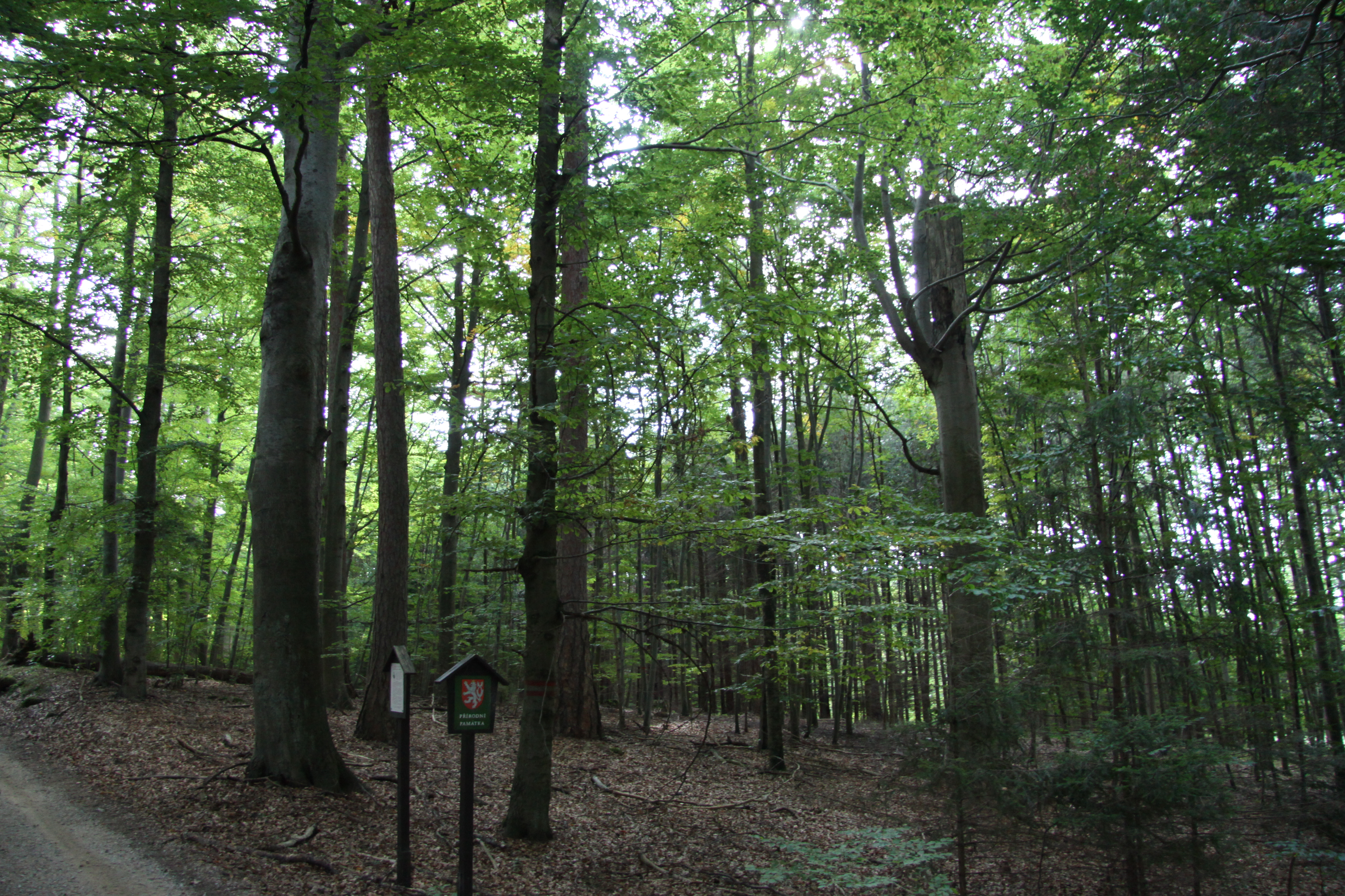 Natural monument Sobědražský prales in Písek District, Czech Republic.